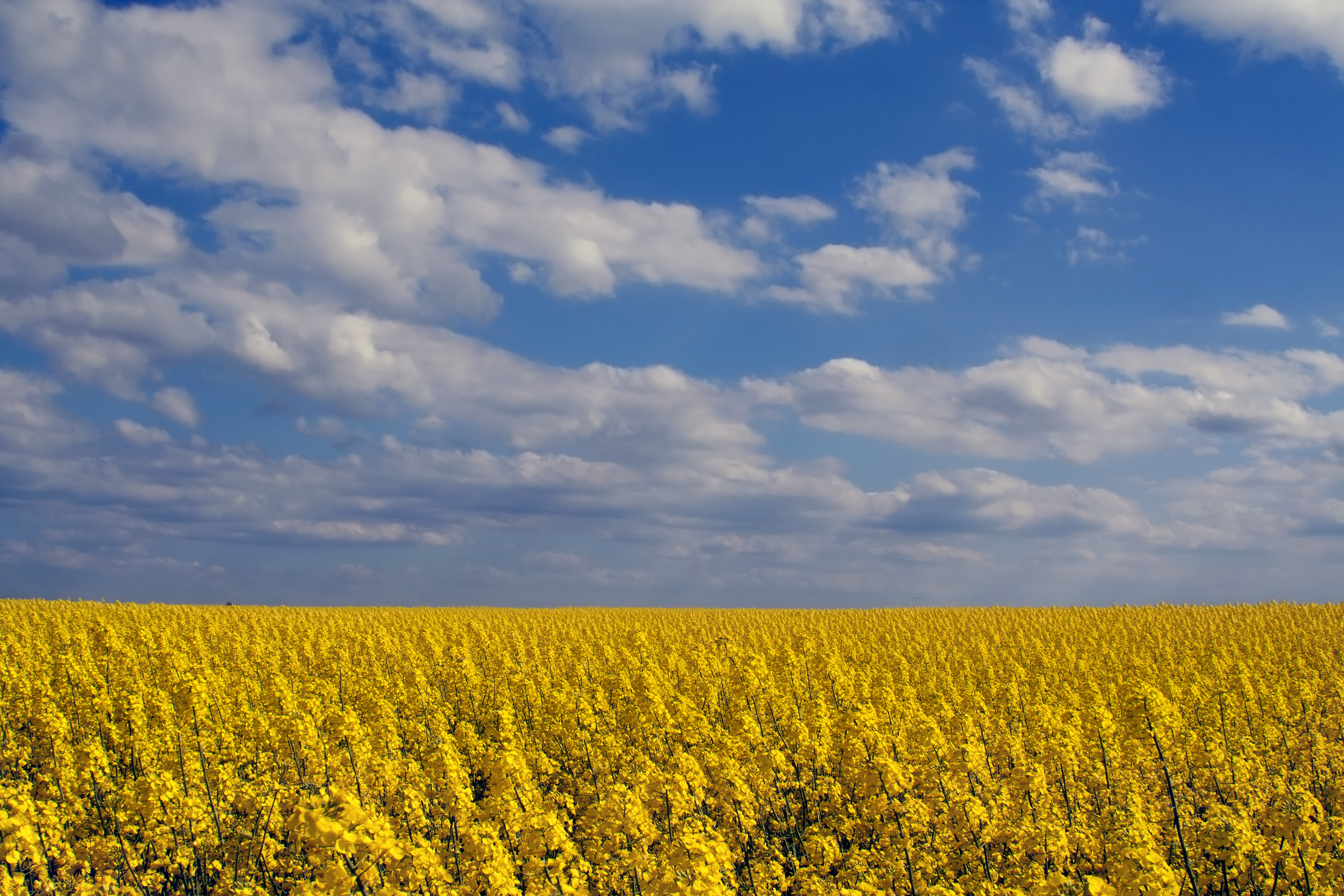 Rape flourishes